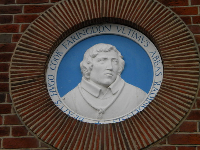 Hugh Faringdon plaque, English Martyrs Church, Liebenhood Road, Reading Hugh Cook Faringdon - last Abbot of Reading Abbey. Was executed in 1539 at the time of the Dissolution of the Monasteries, and beatified in 1895